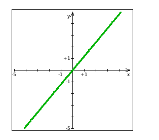 The function f ″ ( x ) = 6 5 x {\displaystyle f (x)={\frac {6}{5 x} , the second derivative of file:Tweede afgeleide vb1.png.